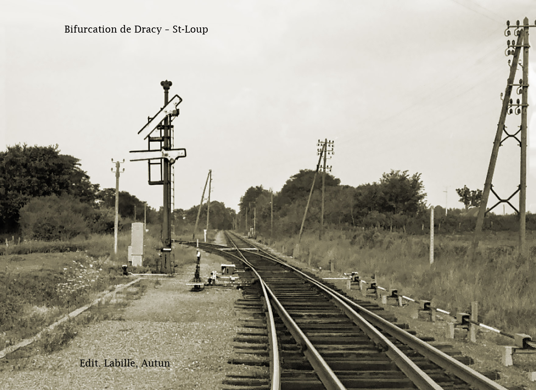 Dracy-Saint-Loup, Saône et Loire, France, first half of 20th century